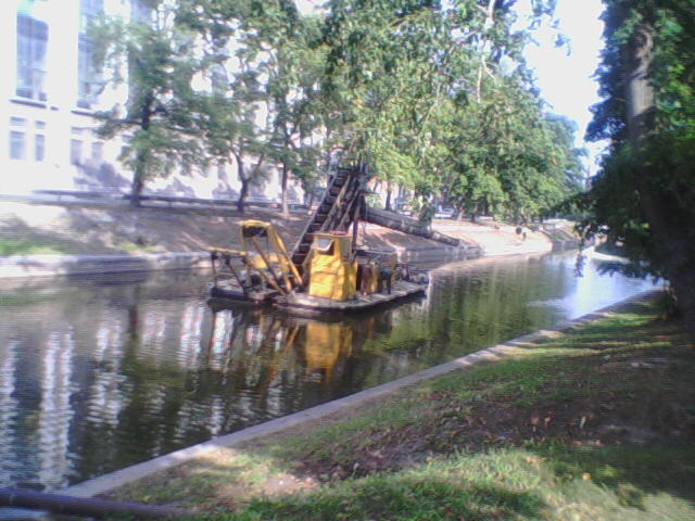 Chernay rechka (river) in Saint Petersburg, Russia